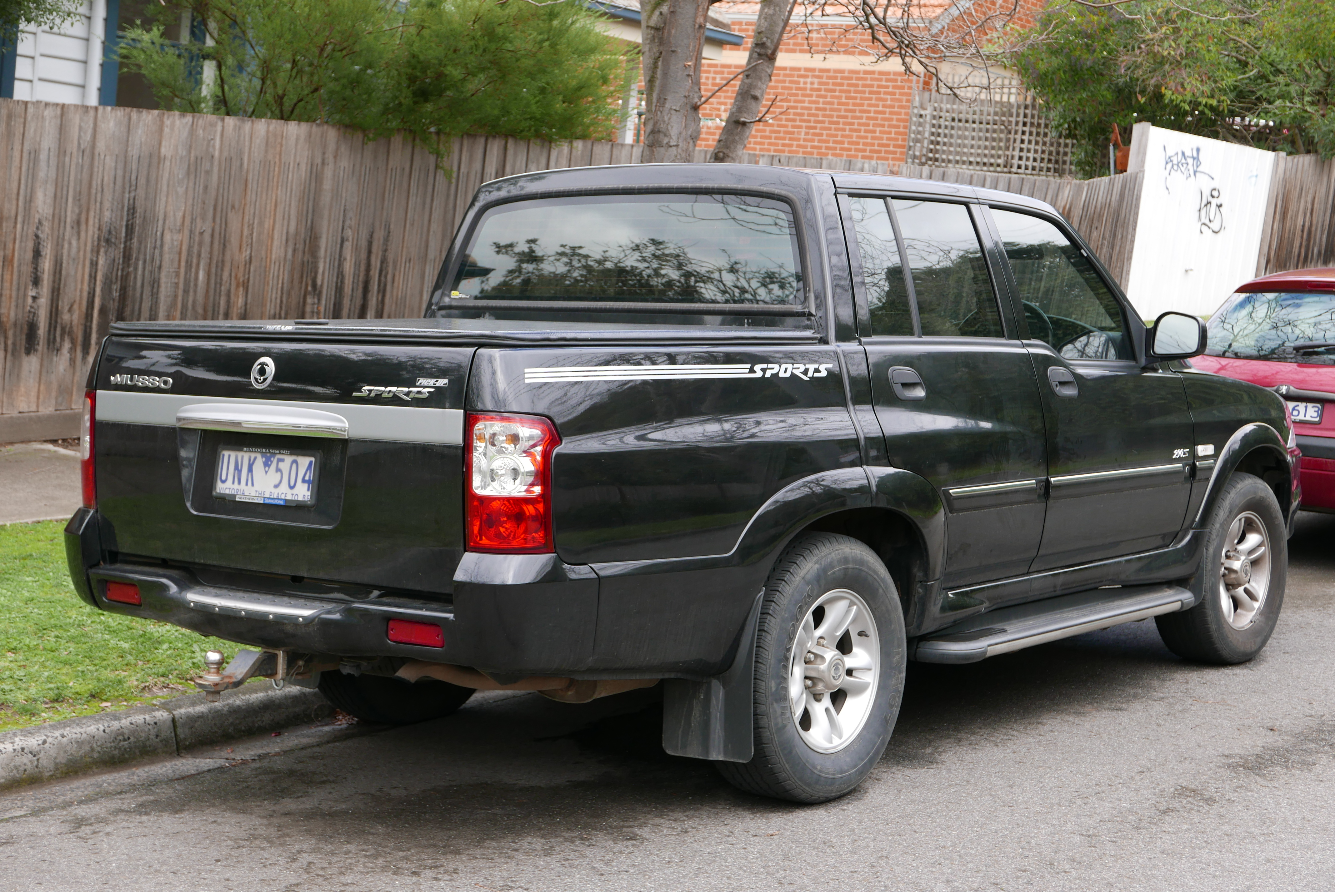 2006 SsangYong Musso Sports utility. Photographed in Ivanhoe, Victoria, Australia. Vehicle registration enquiry resultsJurisdictionVictoriaRegistrationUNK504Chassis codeKPAWA2EDS6P417470Engine code66292012163477Compliance date2006-12Year of manufacture2006